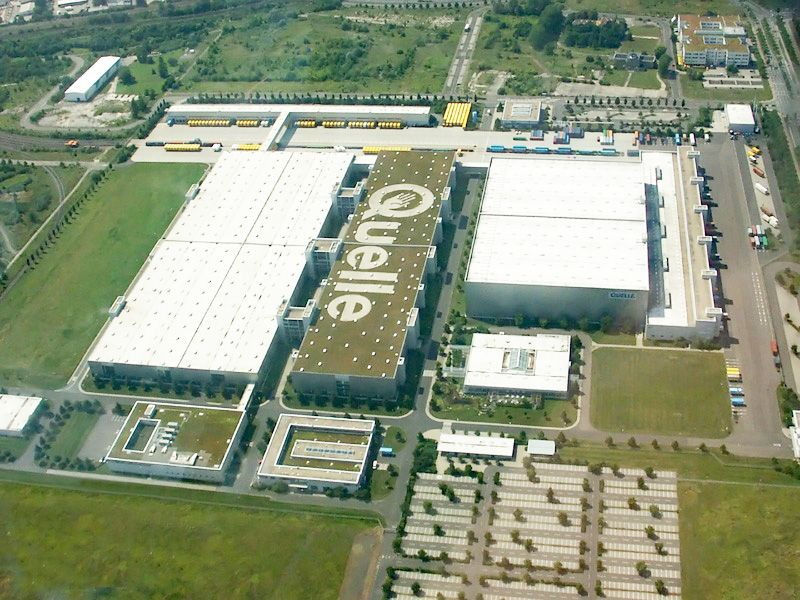 The QUELLE depot in Leipzig (on the former Airport Leipzig-Mockau).